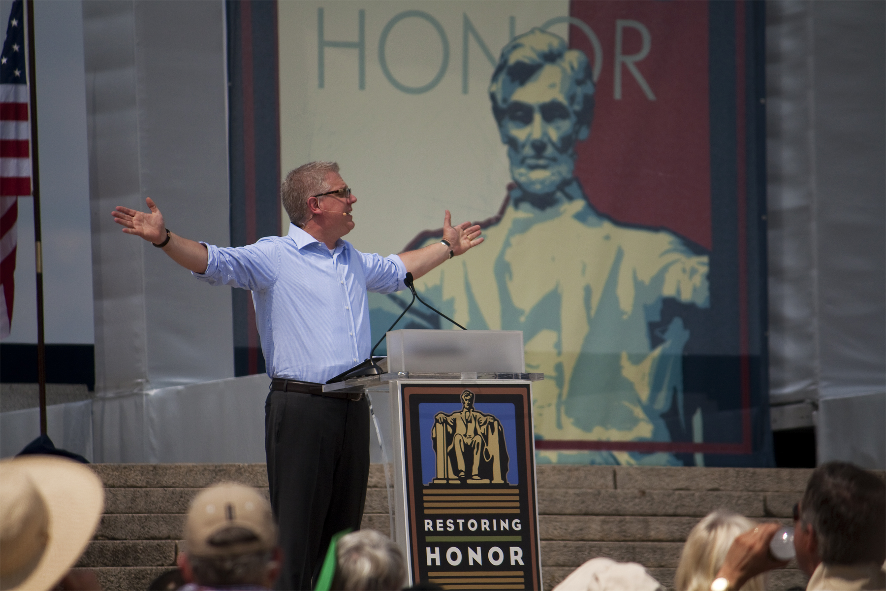 Restoring Honor rally Washington, D.C.